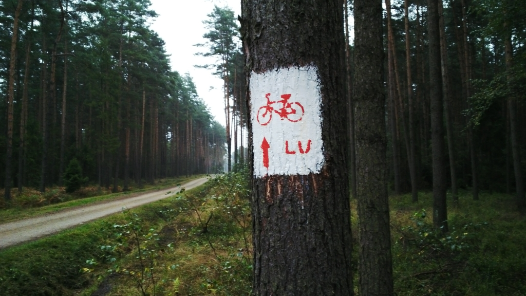 Leśno Uciecha zdjęcie na trasie